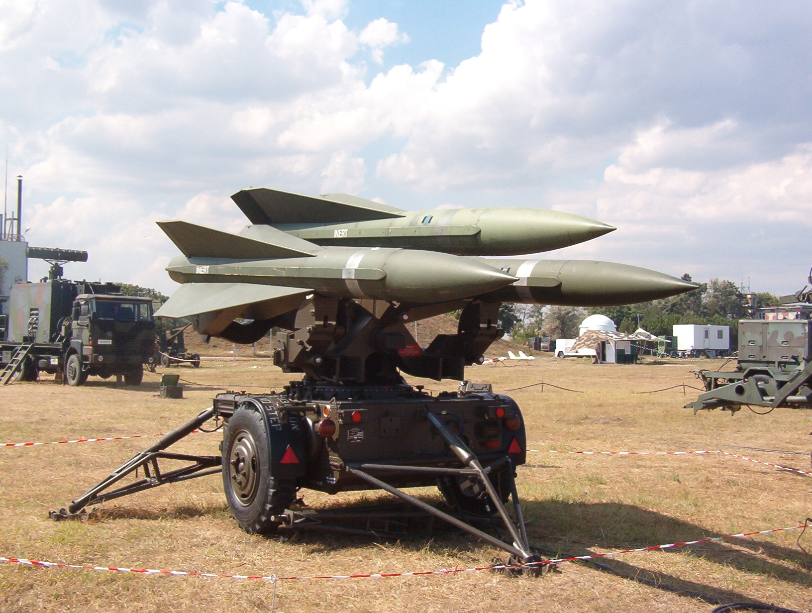 MIM-23 Hawk missiles on display during the 90th anniversary of the Romanian Antiaircraft Artillery and Missiles.